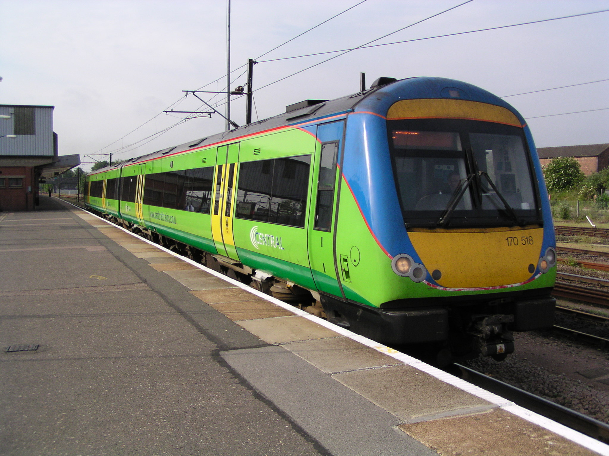 BR Class 170, no. 170518 at Peterborough